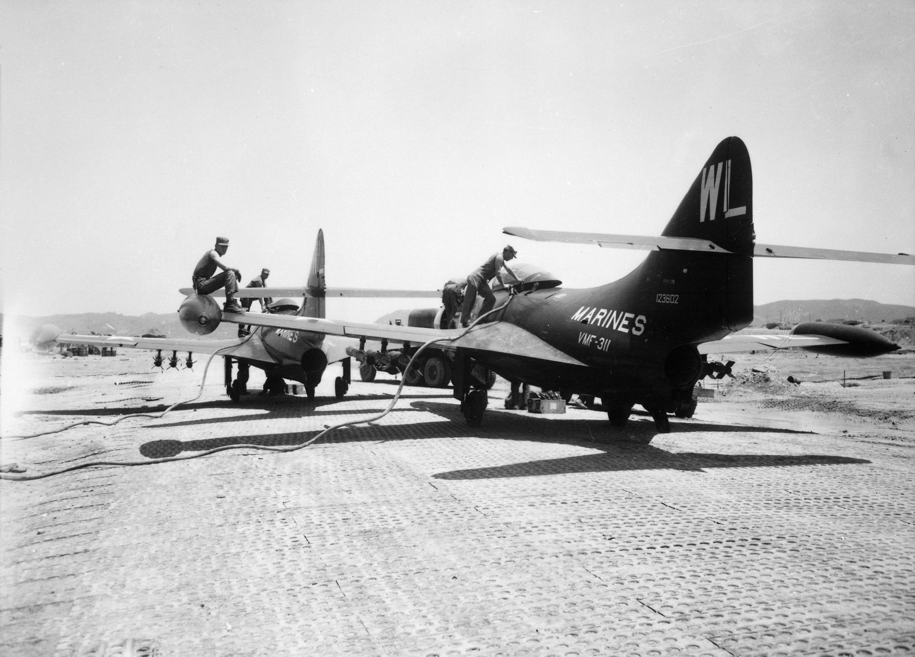 Two Grumman F9F-2B Panthers (BuNo. 123602 in the foreground) of Marine fighter squadron VMF-311 Tomcats being refueled at K-3 (Pohang) airbase during the Korean War. The F9F-2B 123602 was shot down by ground fire near Hyon-ni on 18 June 1951. The pilot, Captain (USMC) Jack E. Perry, ejected successfully.